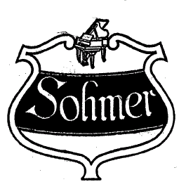 Trademarked image serial number 76/535595, date of first use in commerce March 3, 1916, status listed as abandoned by Burgett, Inc. Sept. 13, 2004, as of May 31, 2007